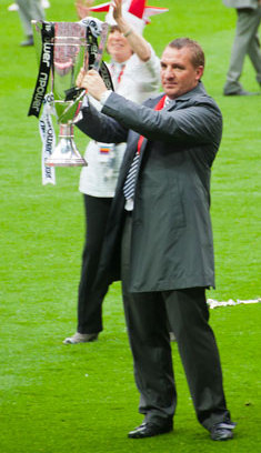 Brendan Rodgers after winning the Championship Playoff Final with Swansea City against Reading.